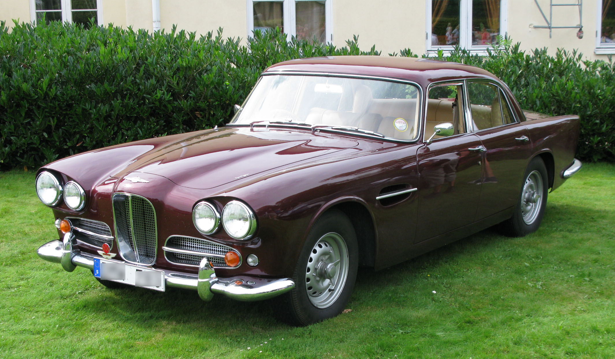 1964 Lagonda Rapide.Event: Sportbilsdagen i Västervik 2012.